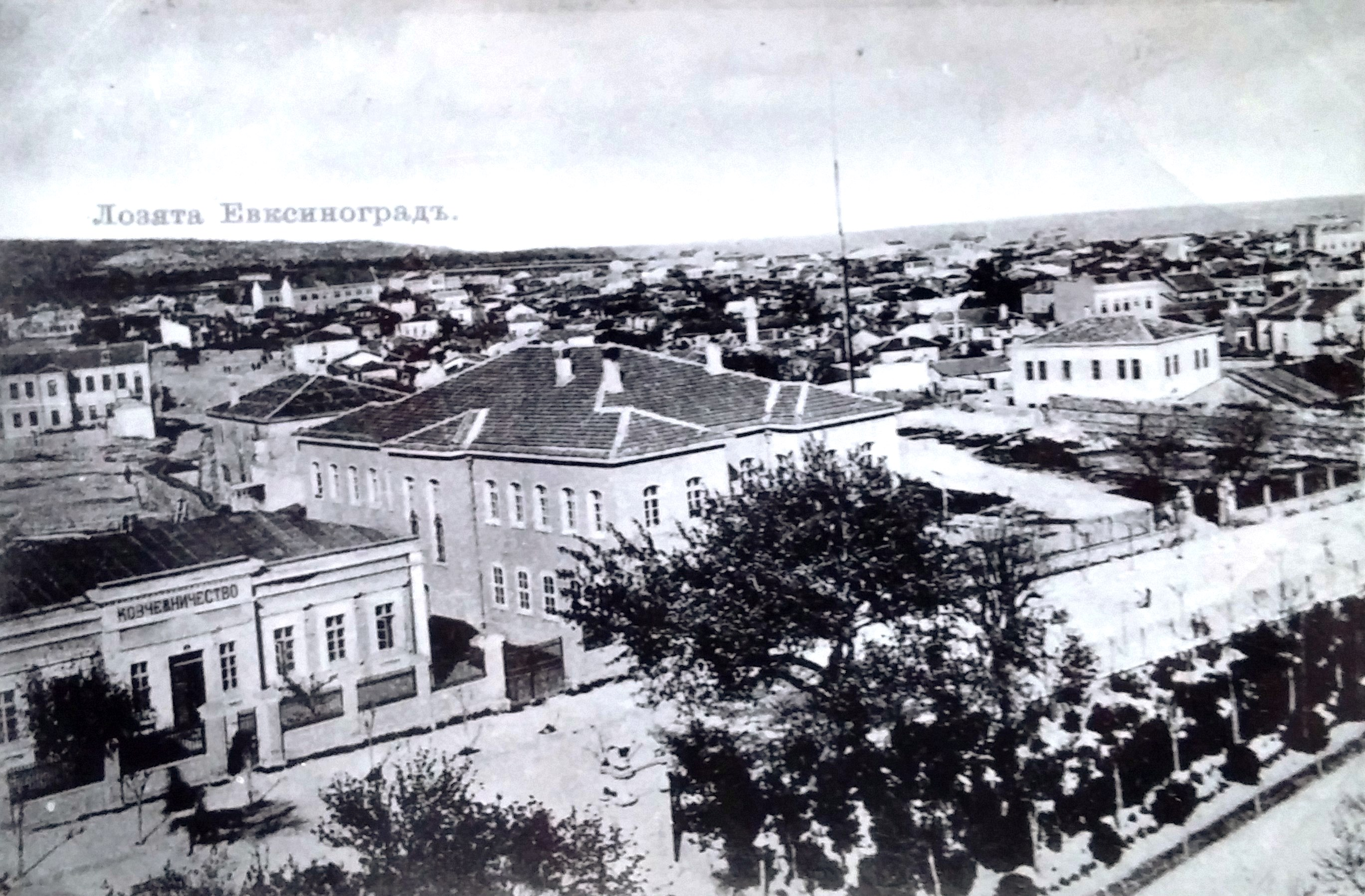 A view of downtown Varna.